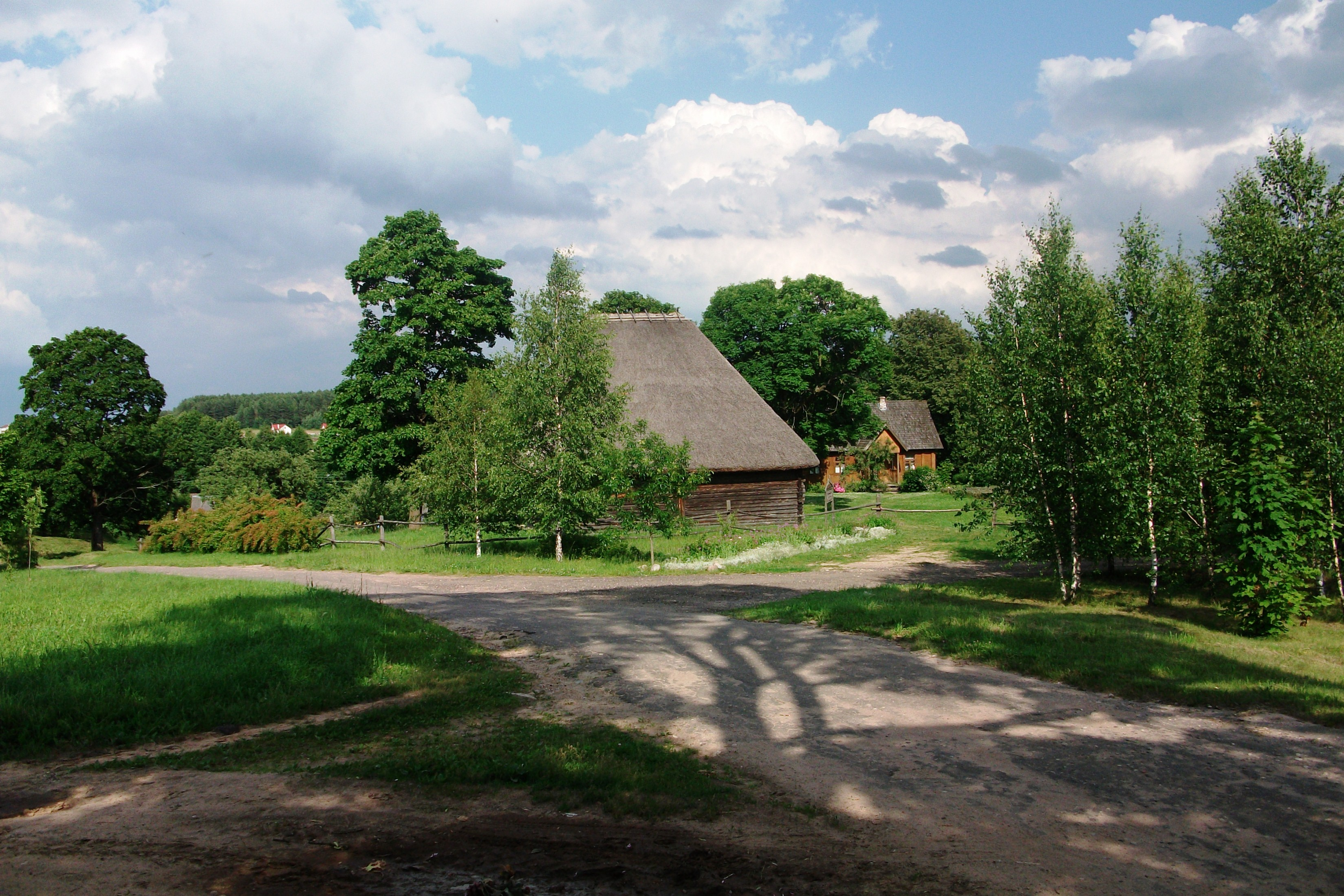 Rakutsyouschyna estate, Maladzechna rayon